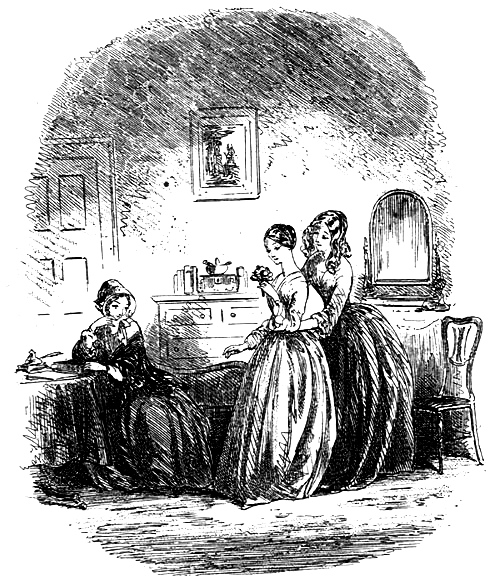 Caddy's Flowers Phiz (Hablot K. Browne) 1853 Etching 4 1/8 x 4 1/8 inches on a page of 8 7/16 x 5 inches Facing p. 170 of Dickens's Bleak House